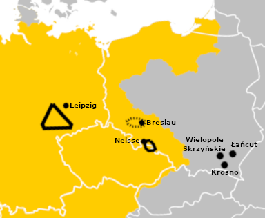 Proposed lands of origin of the Forest Germans (german: Walddeutsche, polish Głuchoniemcy) (around Łańcut, Krosno, Wielopole Skrzyńskie) 1: Dreieck Chemnitz-Rudolstadt-Merseburg 2: Middle Silesia 3: Surroundings of Nysa, Prudnik, Biała and Osoblaha source: Wojciech Blajer, Uwagi o stanie badań nad enklawami średniowiecznego osadnictwa niemieckiego między Wisłoką i Sanem [Bemerkungen zum Stand der Forschungen über die Enklaven der mittelalterlichen deutschen Besiedlung zwischen Wisłoka und San], [in:] Późne średniowiecze w Karpatach polskich, Rzeszów 2007, p. 92.